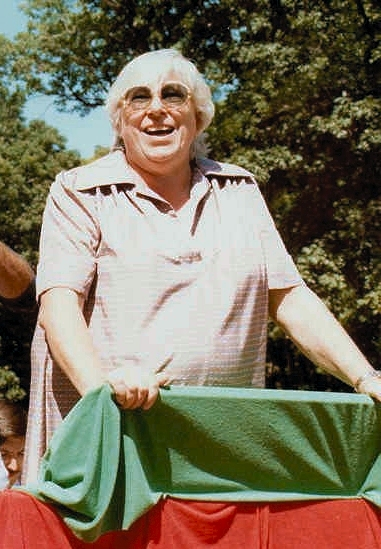 Photo of Madalyn Murray O'Hair. 1983 at Robert Ingersoll statue, Peoria, Illinois.